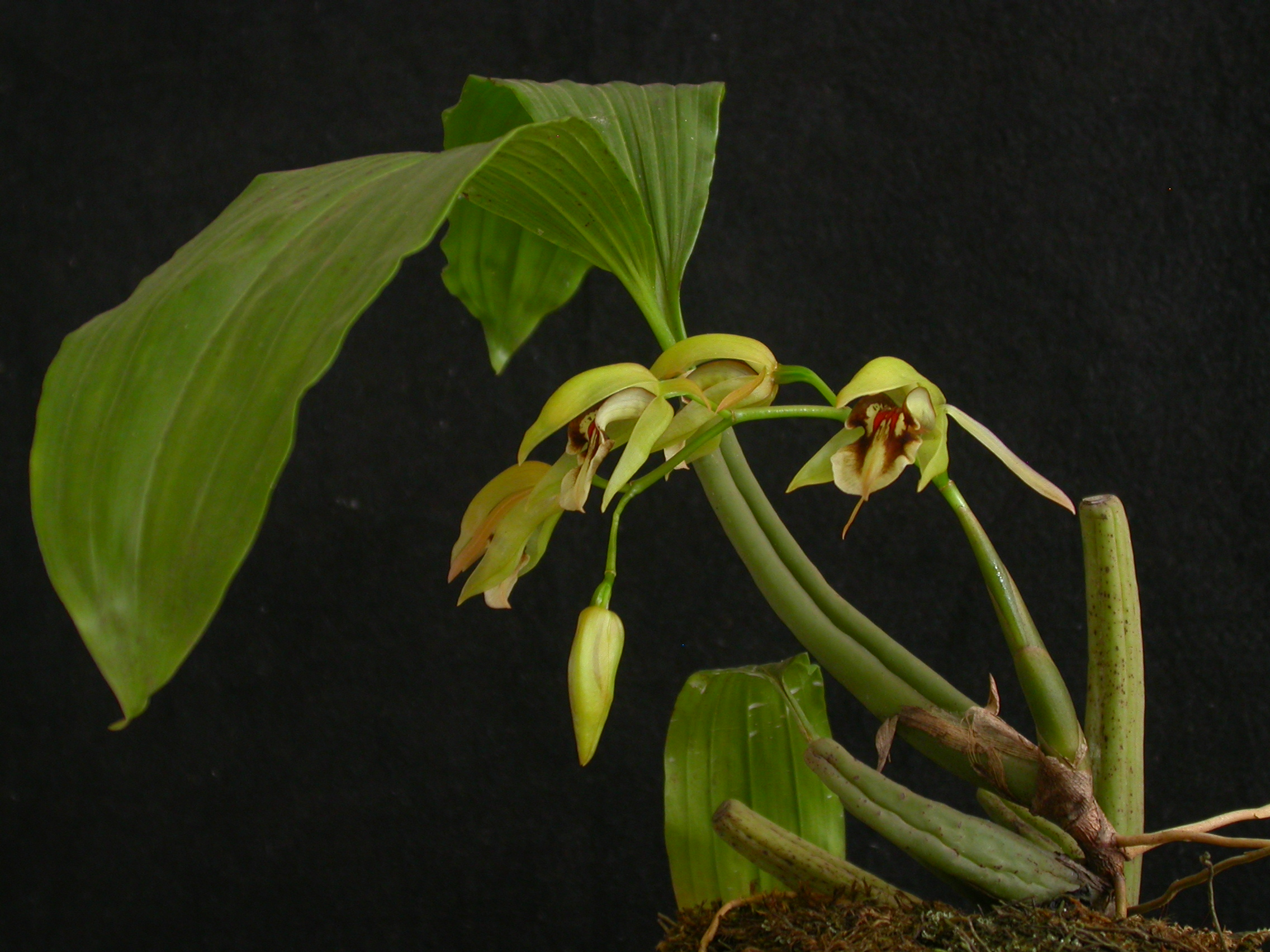 Coelogyne fuscescens plant